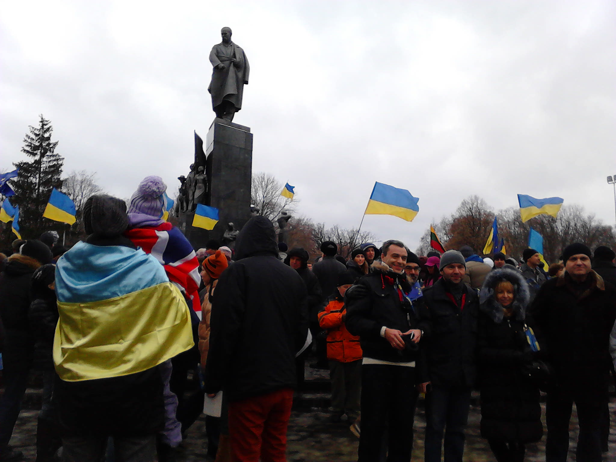 Euromaidan in Kharkiv, December 08, 2013.